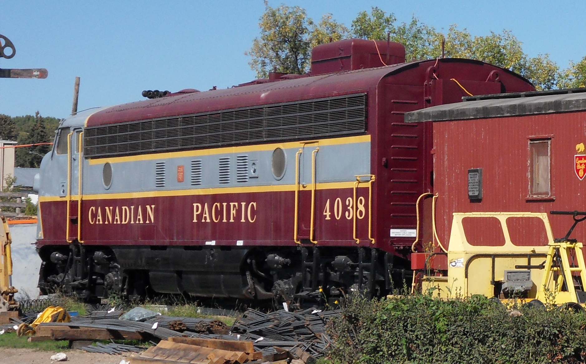 CP FP9 at Minnedosa, Manitoba.